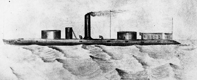 A cropped image of a primitive sketch of the USS Winnebago. Original found at: The sketch is circa 1864,1865